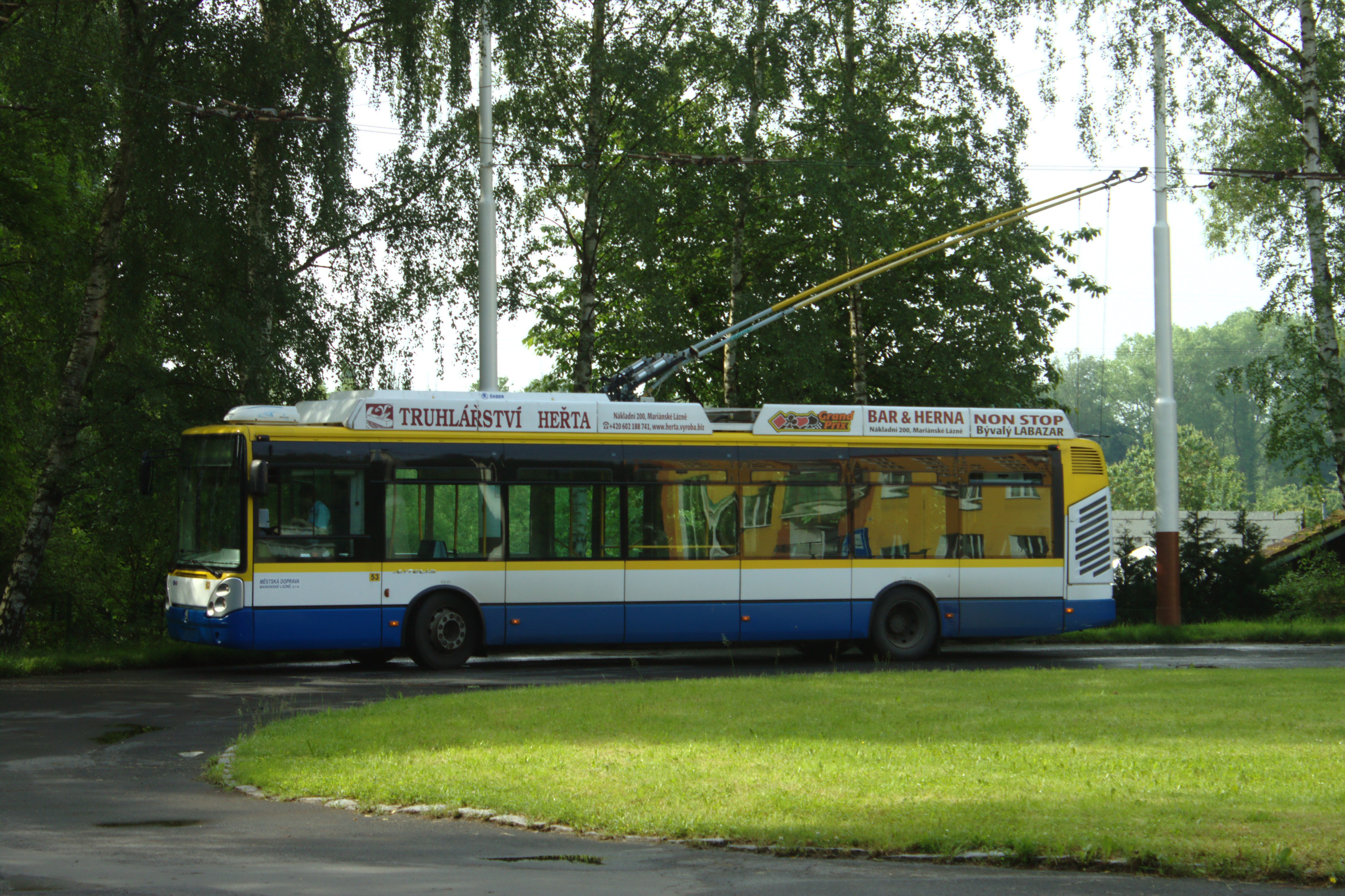 A trolleybus 24Tr at the end stop at Antoníčkův pramen spring, Mariánské Lázně, CZ